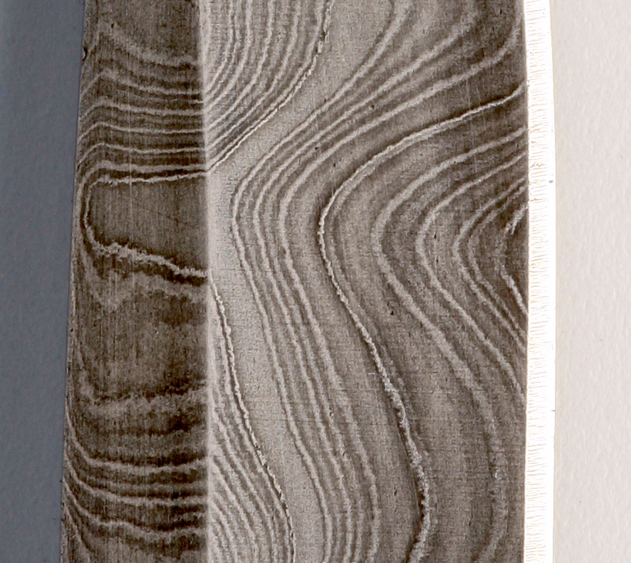 Derived work from File:DamaszenerKlinge.JPG. Close-up showing pattern on Damascus knife